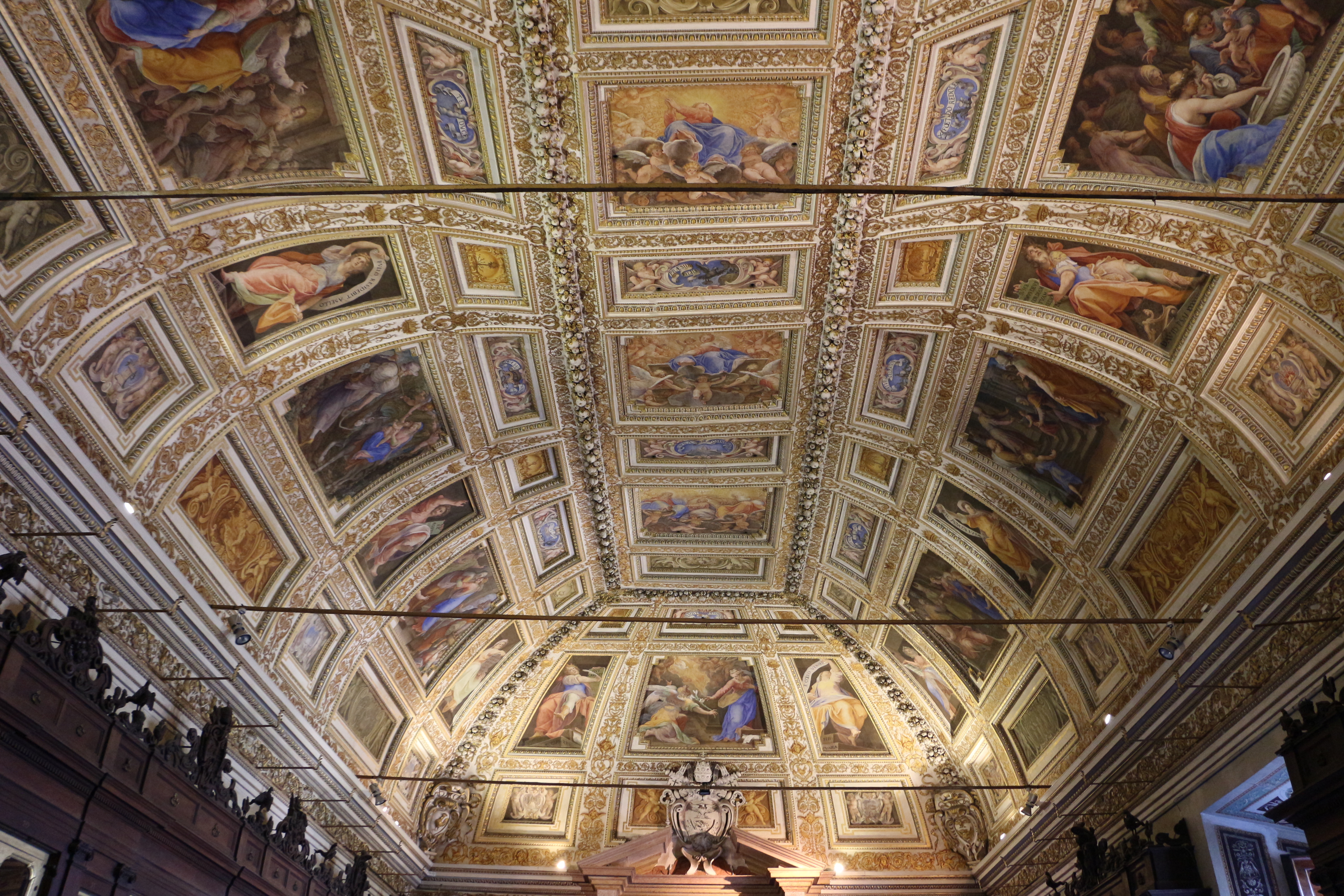 Santuario della Santa Casa (Loreto) - Pomarancio Vestry